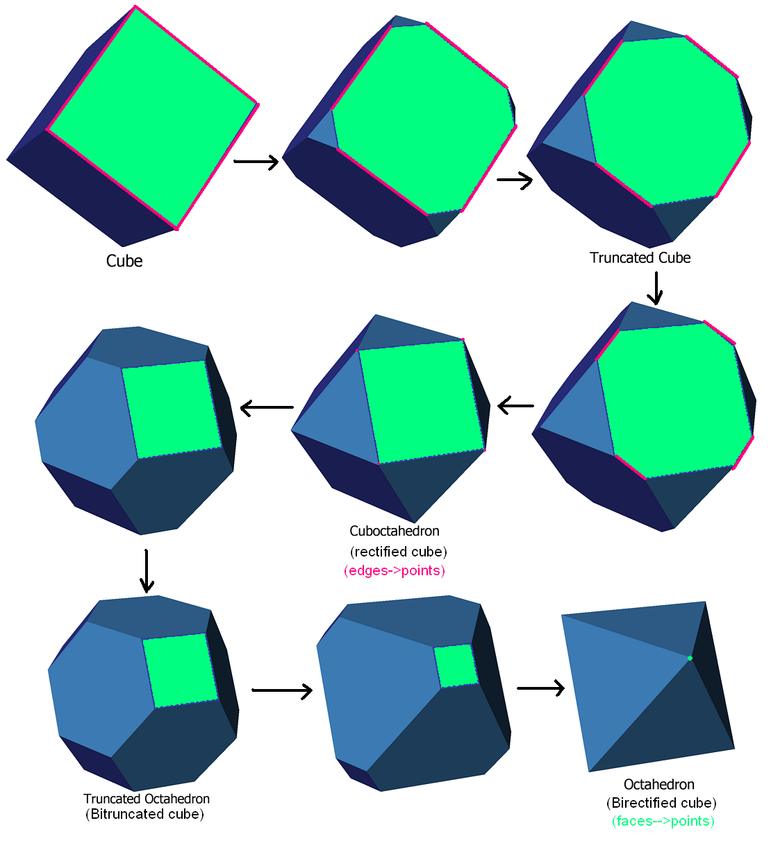 Truncation sequence from a cube to its dual octahedron.